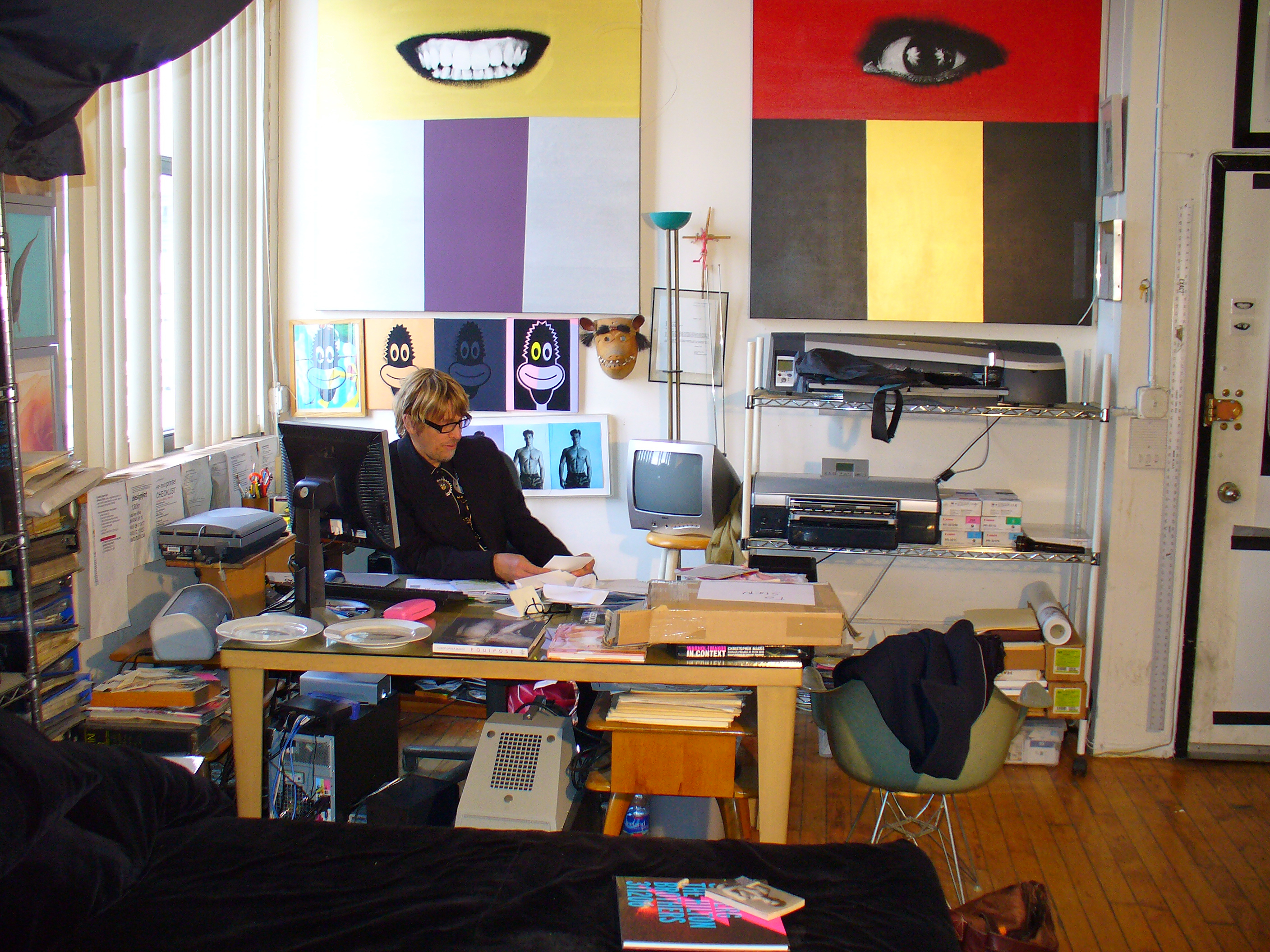 Christopher Makos by David Shankbone